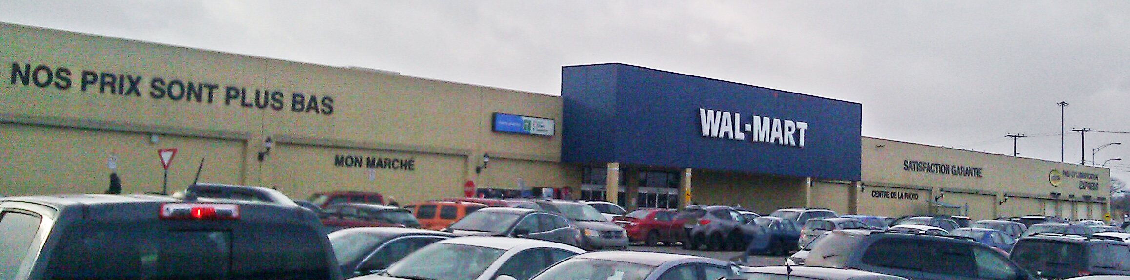 Walmart store of Galeries Rive Nord with old logo photographed in Repentigny, Quebec, Canada By 2018-19, the store was renovated and phaseout of the old logo within the exterior happened 2018. The store was Woolco from the mall's 1975 inauguration until 1994.